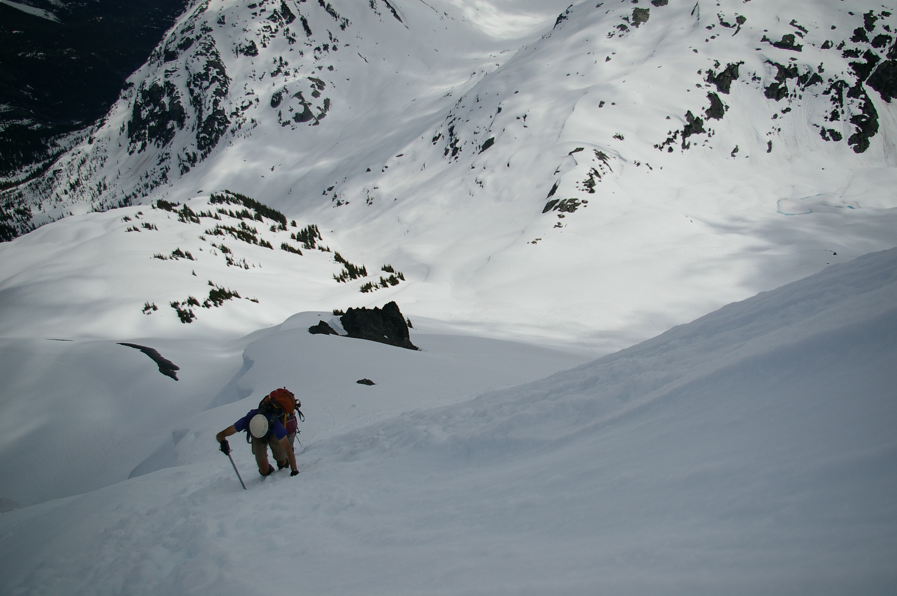 Scrambling on a snowy slope. Litle Ring Peak, British Columbia, Canada